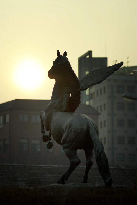 kwangwoon university